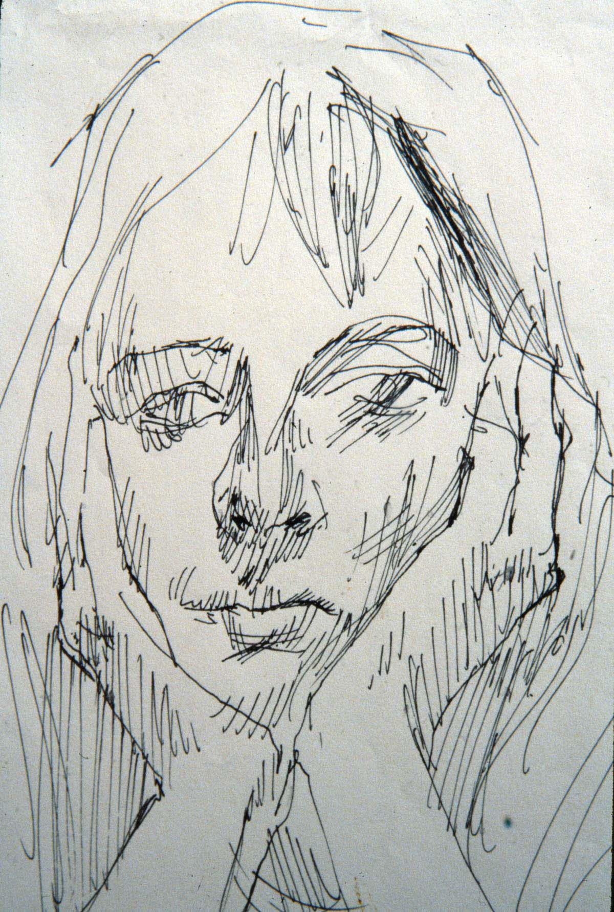 1963 – Ellie pen drawing